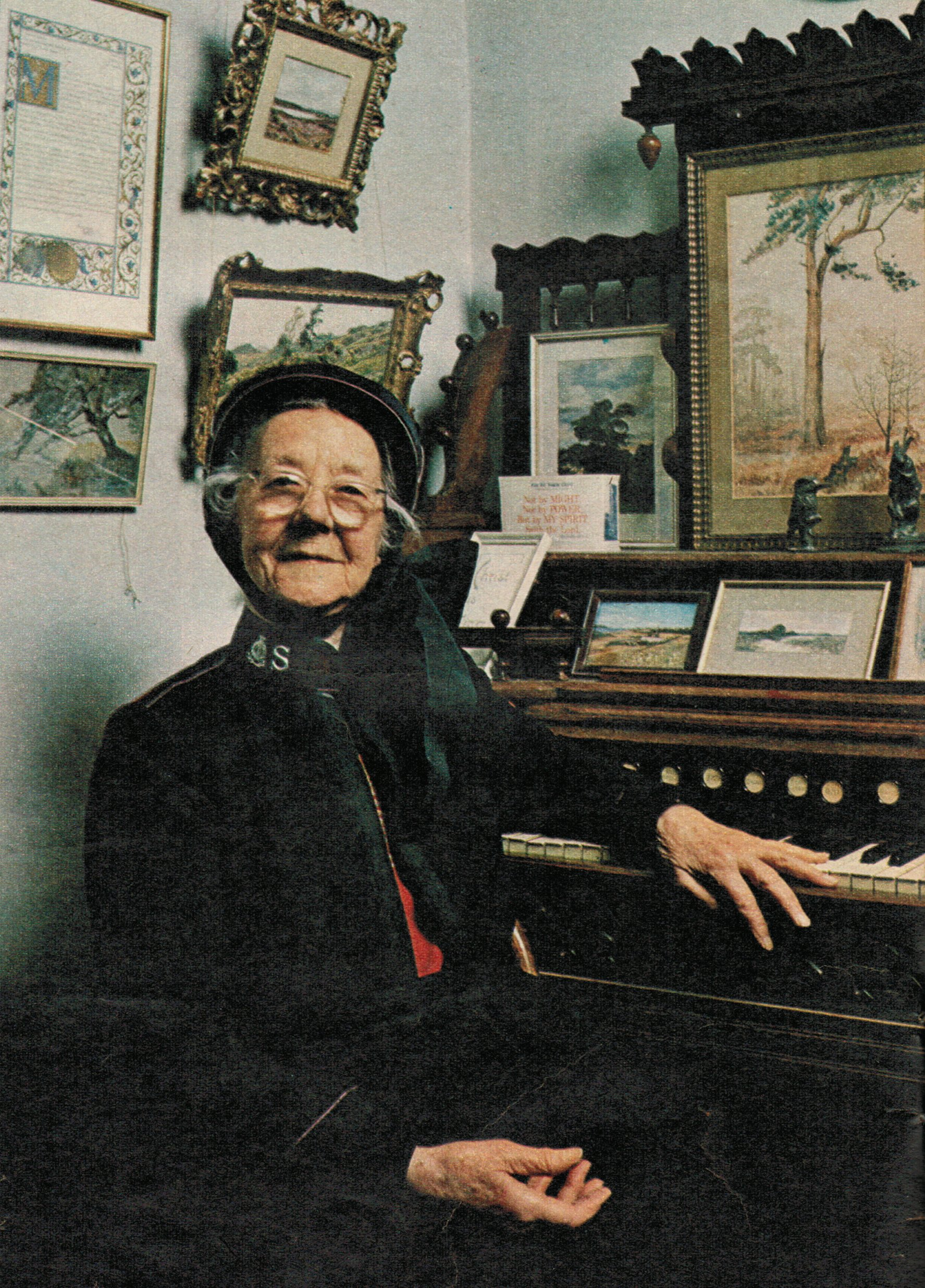 Scanned from a photograph taken by me in 1977 of the 94 year-old Catherine Bramwell-Booth at her home North Court, in Finchampstead, Berkshire